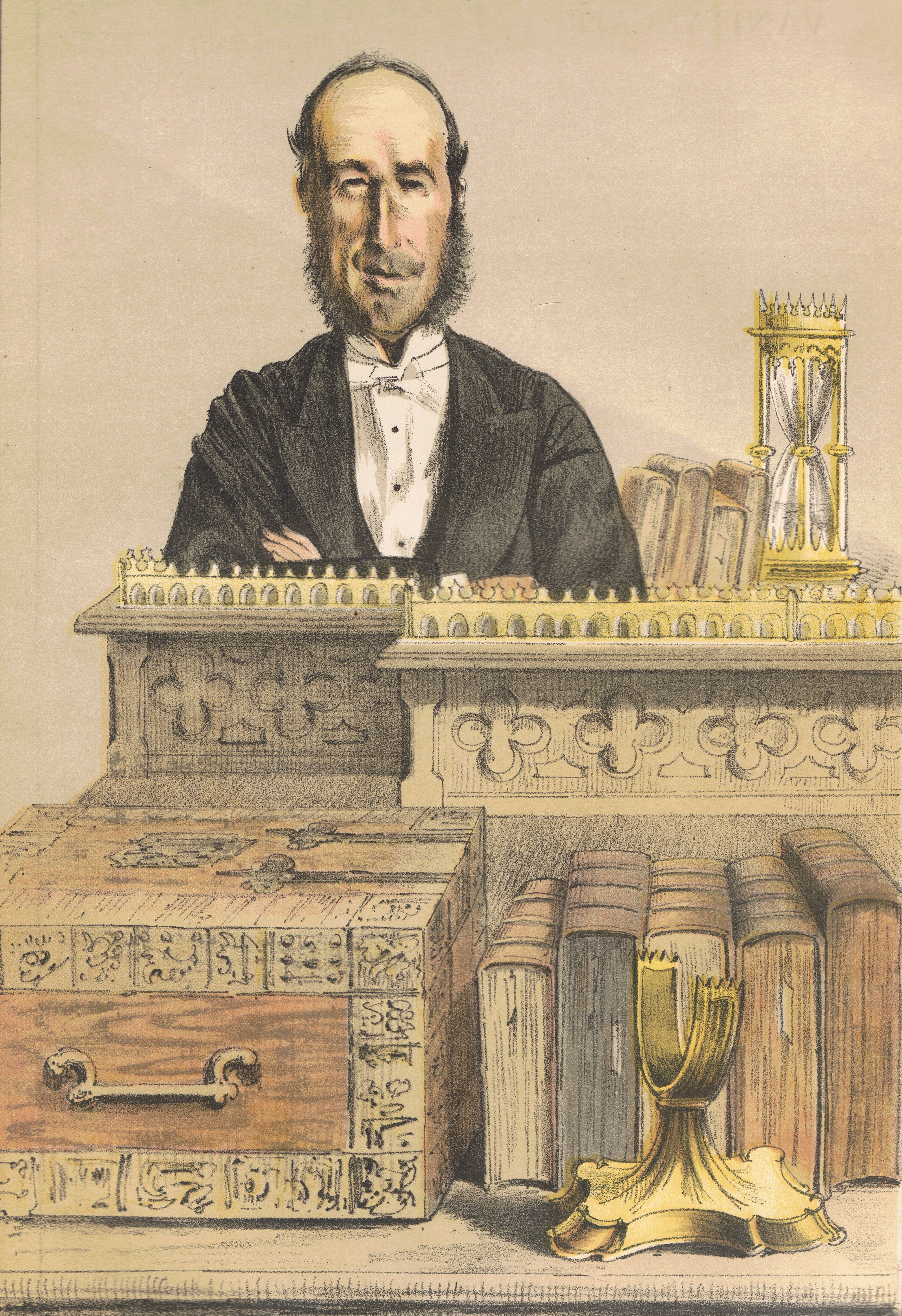 My scan (R.de Salis, Rodolph (talk)) of the 1st Lord Monk Bretton, detail of lithographic reproduction, after James Tissot, published in Vanity Fair, 16 December 1871.